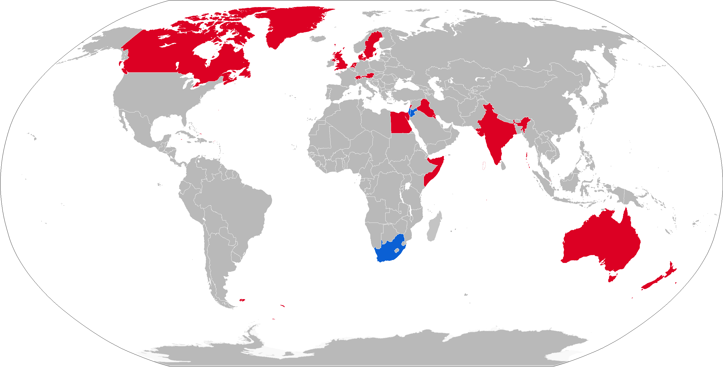 Map of Centurion operators